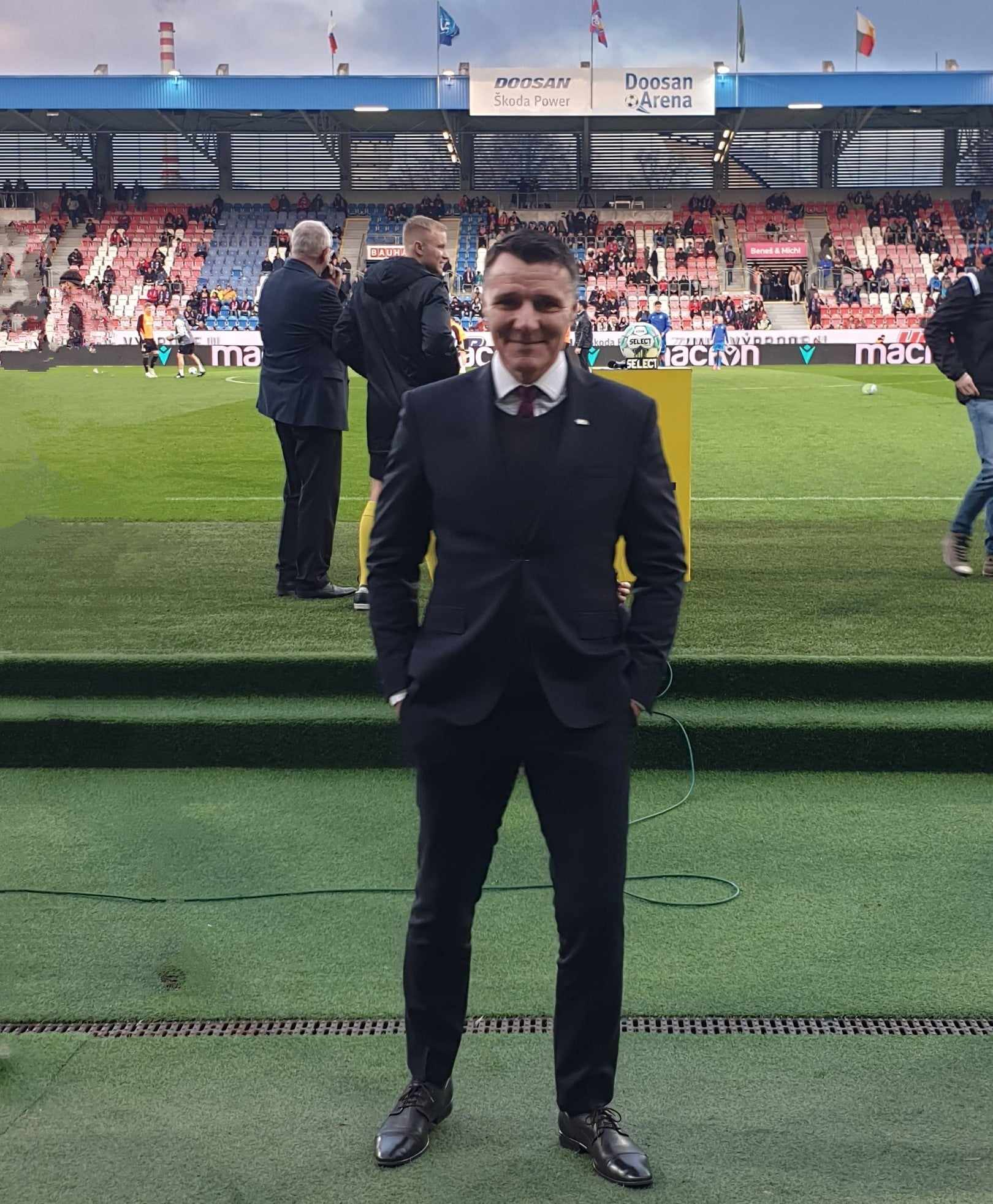 Fotografie